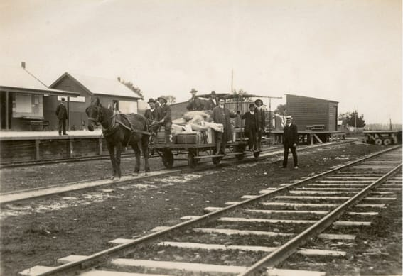 2ft 6in gauge horse drawn tramway. Port Welshpool, Victoria, Australia